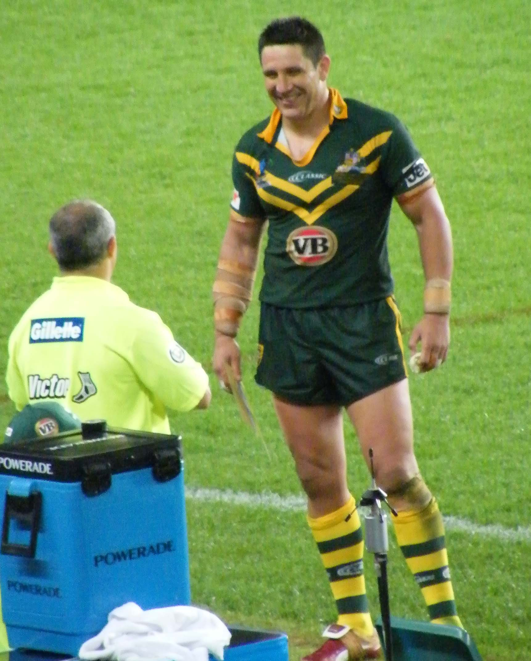 Australian Prop Steve Price, RLWC 2008.